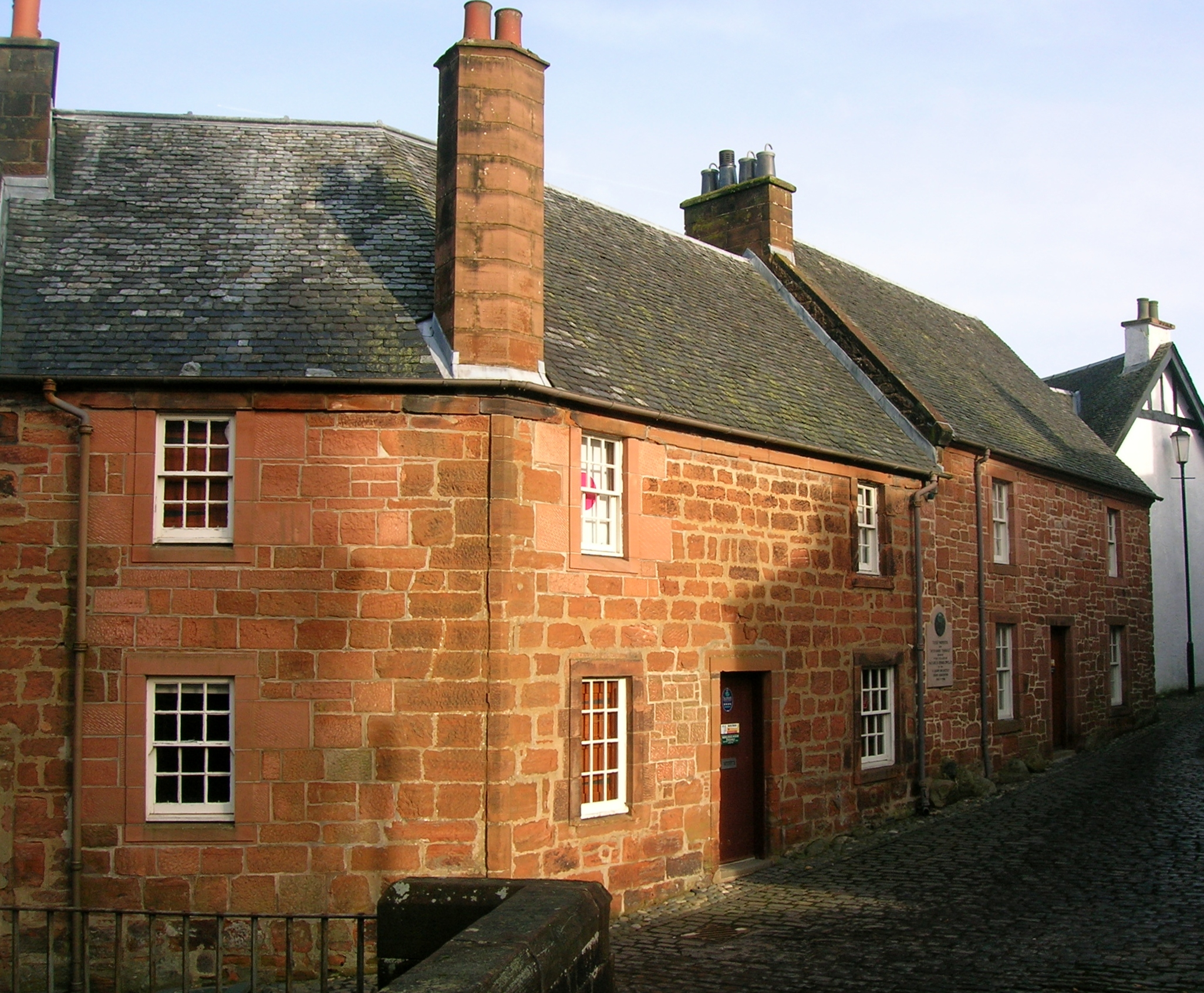 The Burns Museum in Mauchline within Robert Burns and Jean Armour's home, Mauchline, Scotland